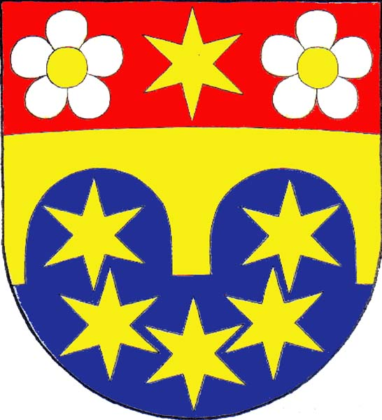 Municipal coat of arms of Královice village, Kladno District, Czech Republic.